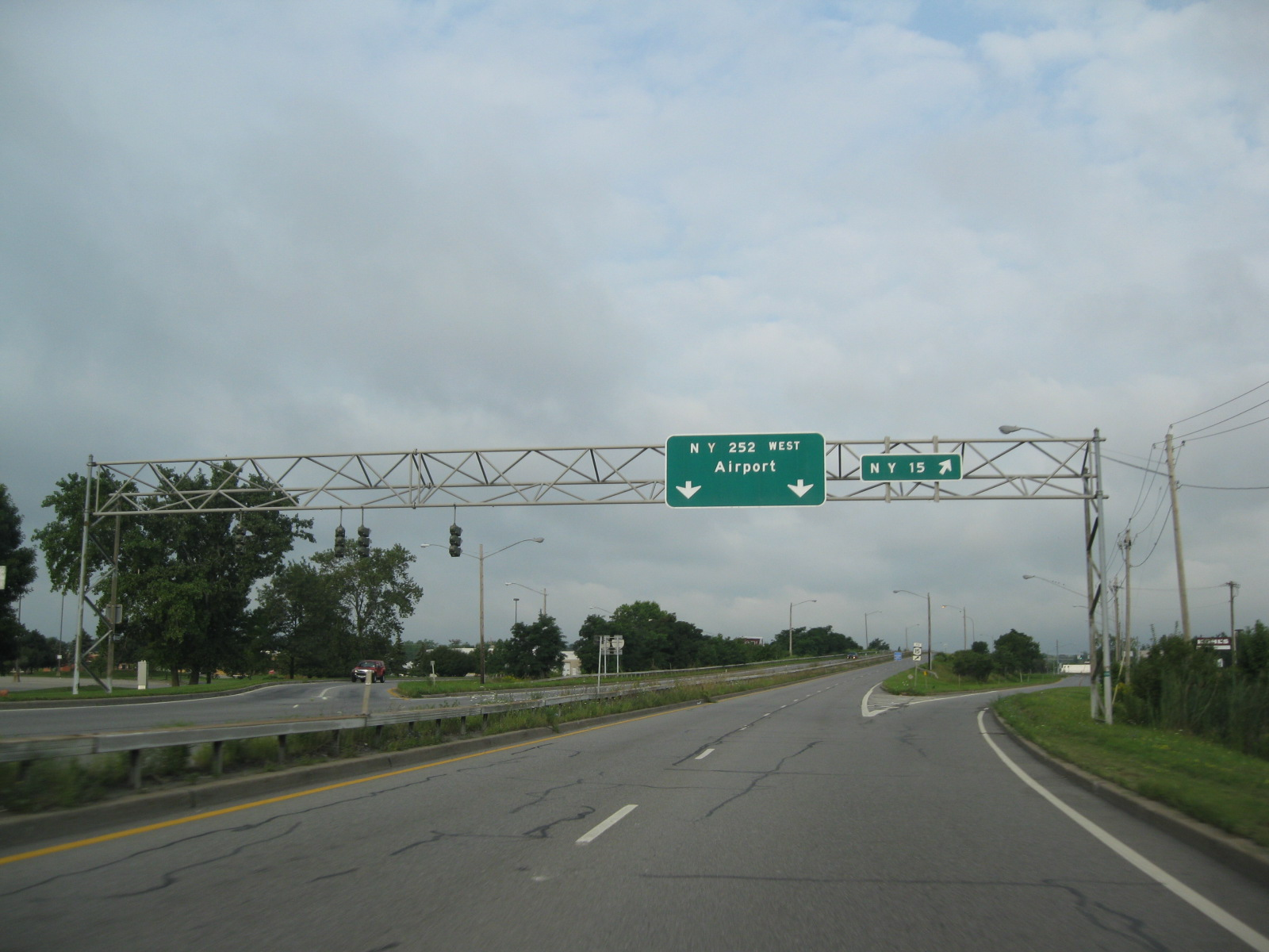 Westbound on New York State Route 252 at New York State Route 15 in Henrietta. The two routes meet by way of a modified diamond interchange.